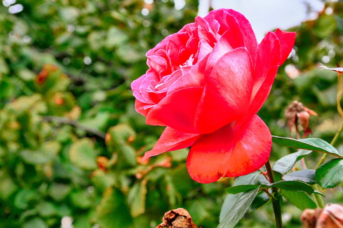 red flower ot Pomorie bay